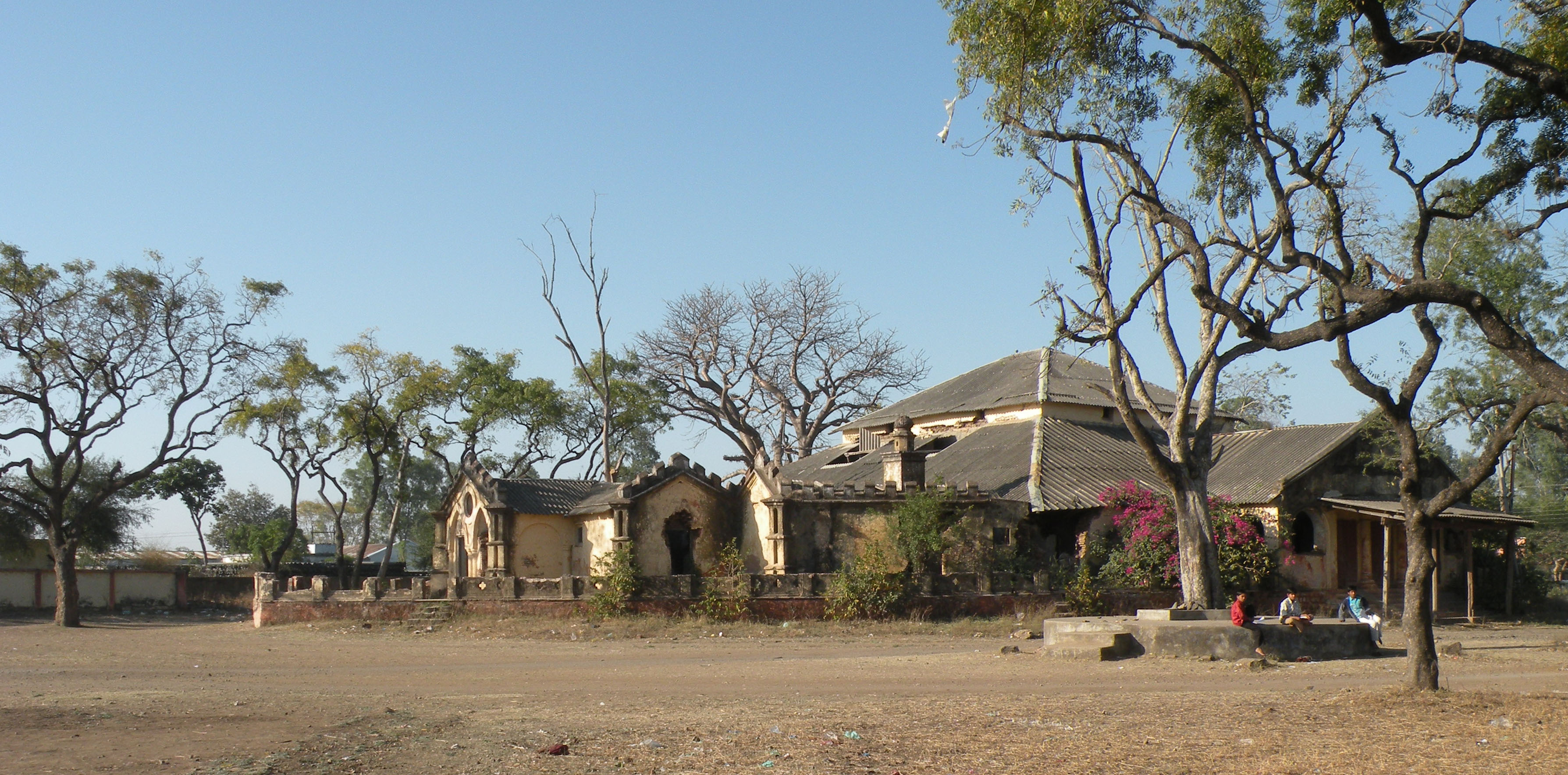 Dhar, Madhya Pradesh, India. Agency House in 2010